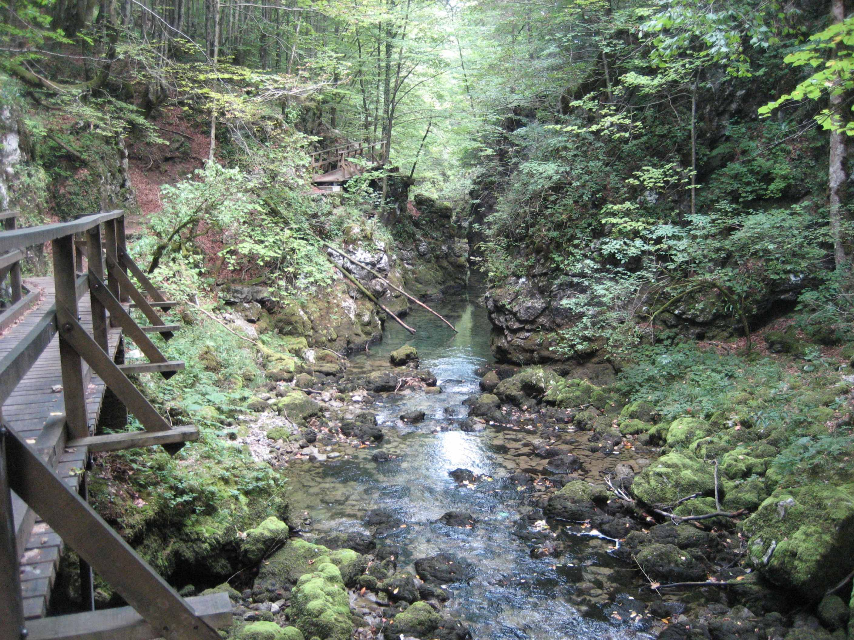 Kamacnik2,_Croatia